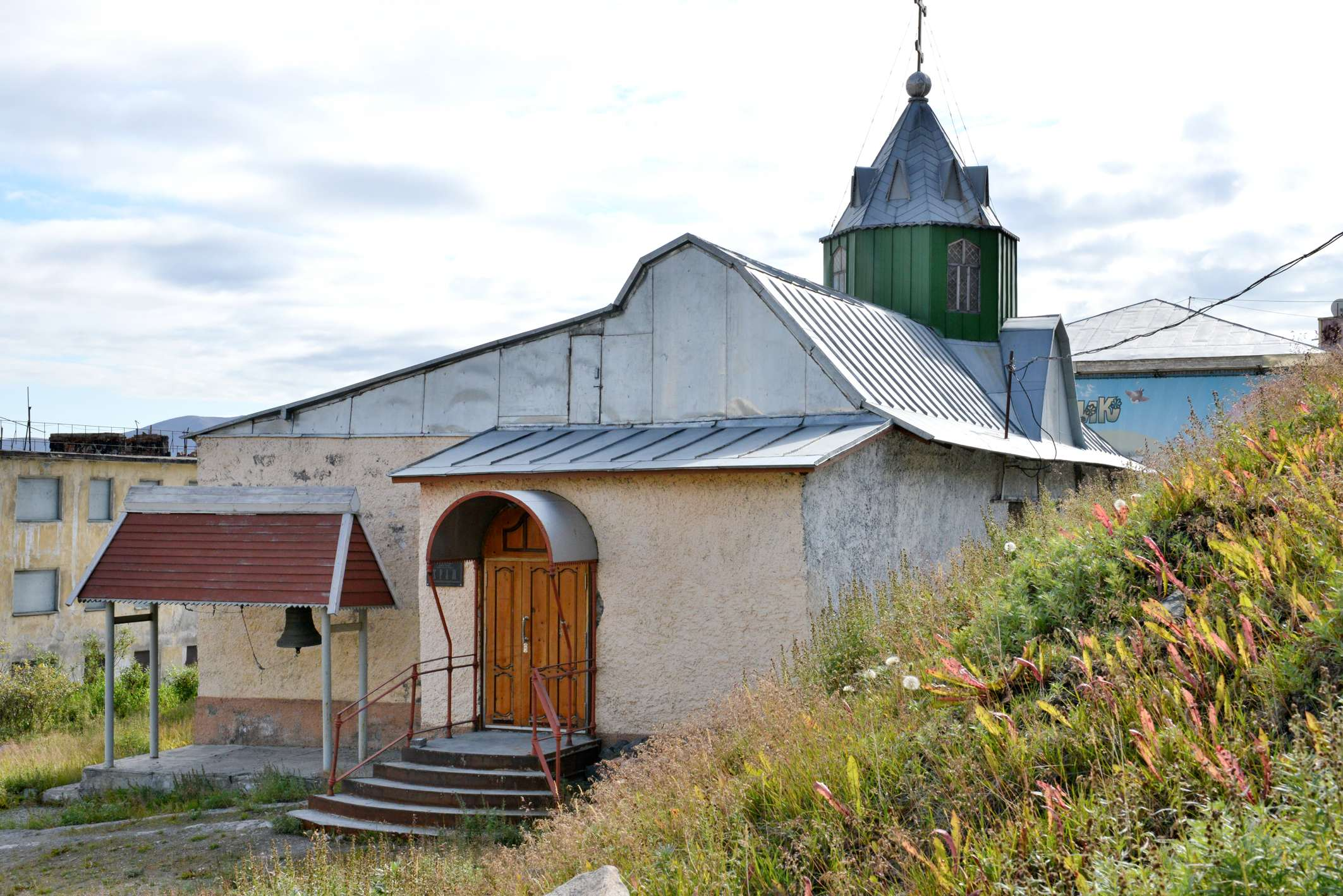 Provideniya (Chukotka, Russia; 64°25’30’’N, 173°13’30’’W), Russian Orthodox Church